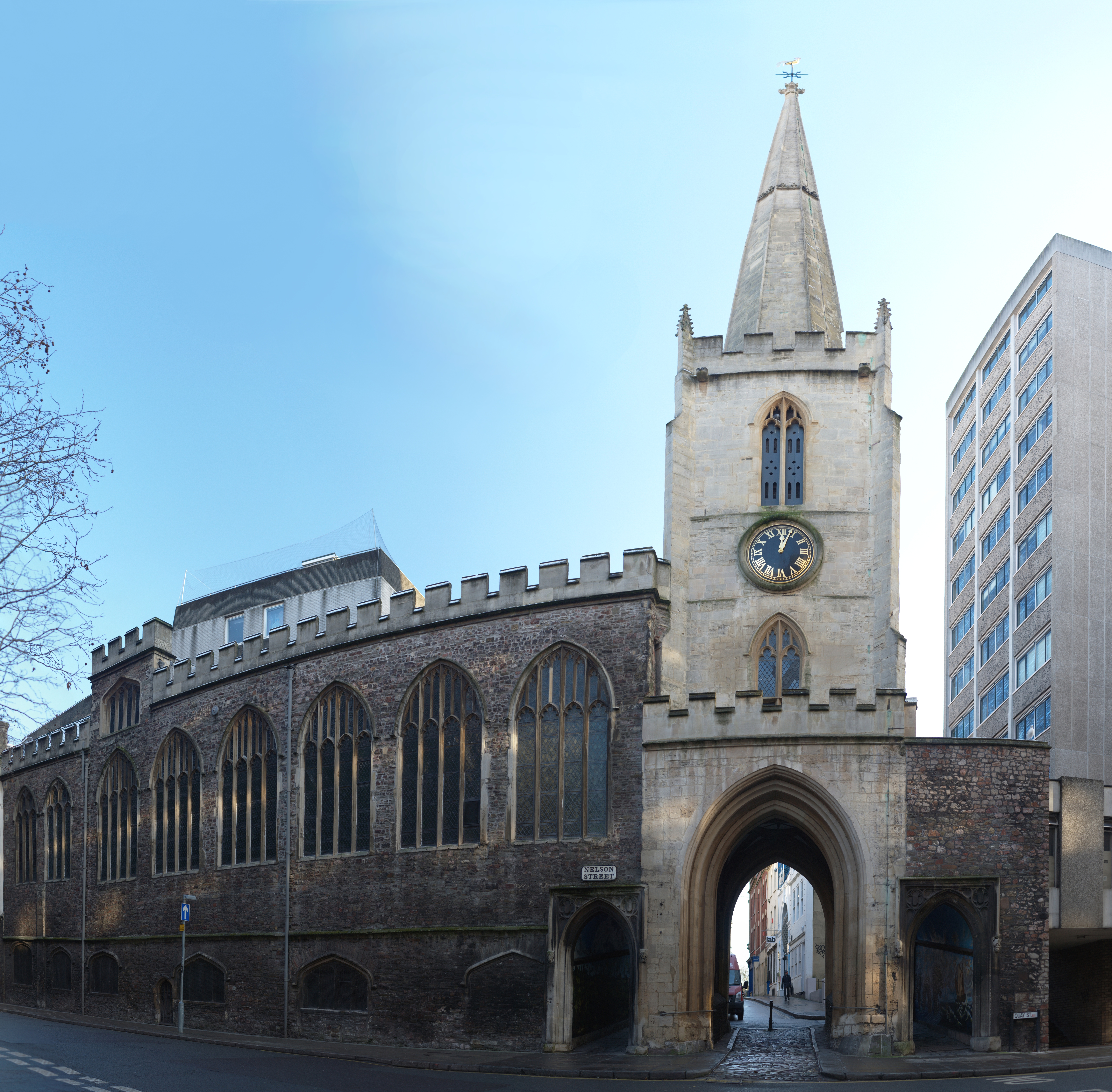 Church of St John the Baptist, Bristol. NB this picture is a panoramic image in equirectilinear projection, meaning that some straight lines are distorted